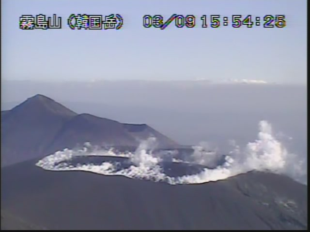 Mount Shinmoe filmed by Japan Meteorological Agency from Mount Karakuni, at 15:54, March 9, 2018. The crater filled up with lava.